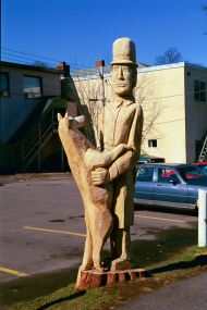 In Truro, Nova Scotia, tree sculpture of John W. (Jack) Fraser "Chief of Police" 1888 - 1953.